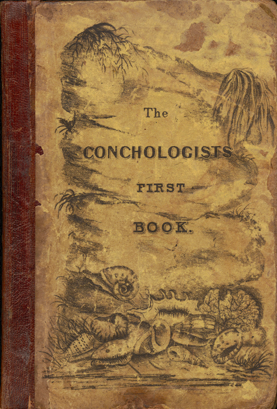 Cover of The Conchologist’s First Book, purported to be written by Edgar A. Poe, though the majority of the work was taken from a book by Prof. Thomas Wyatt. Published in Philadelphia by Haswell, Barrington, and Haswell, 1839. First edition. See also an interior page from the second edition here. Note: Adjusted for brightness/contrast and some color touch-up.